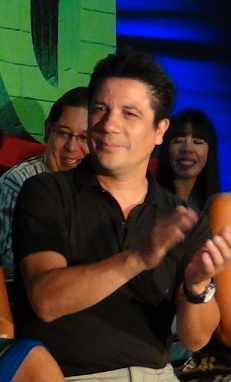 "Al fondo hay sitio" star Bruno Odar in a press conference, on February 2012.